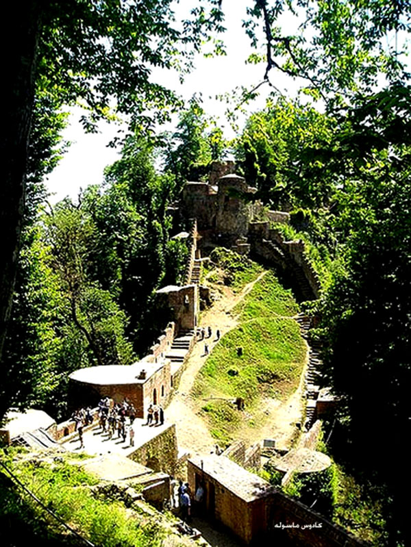 قلعه رودخان تارنمای کادوس ماسوله رودخان